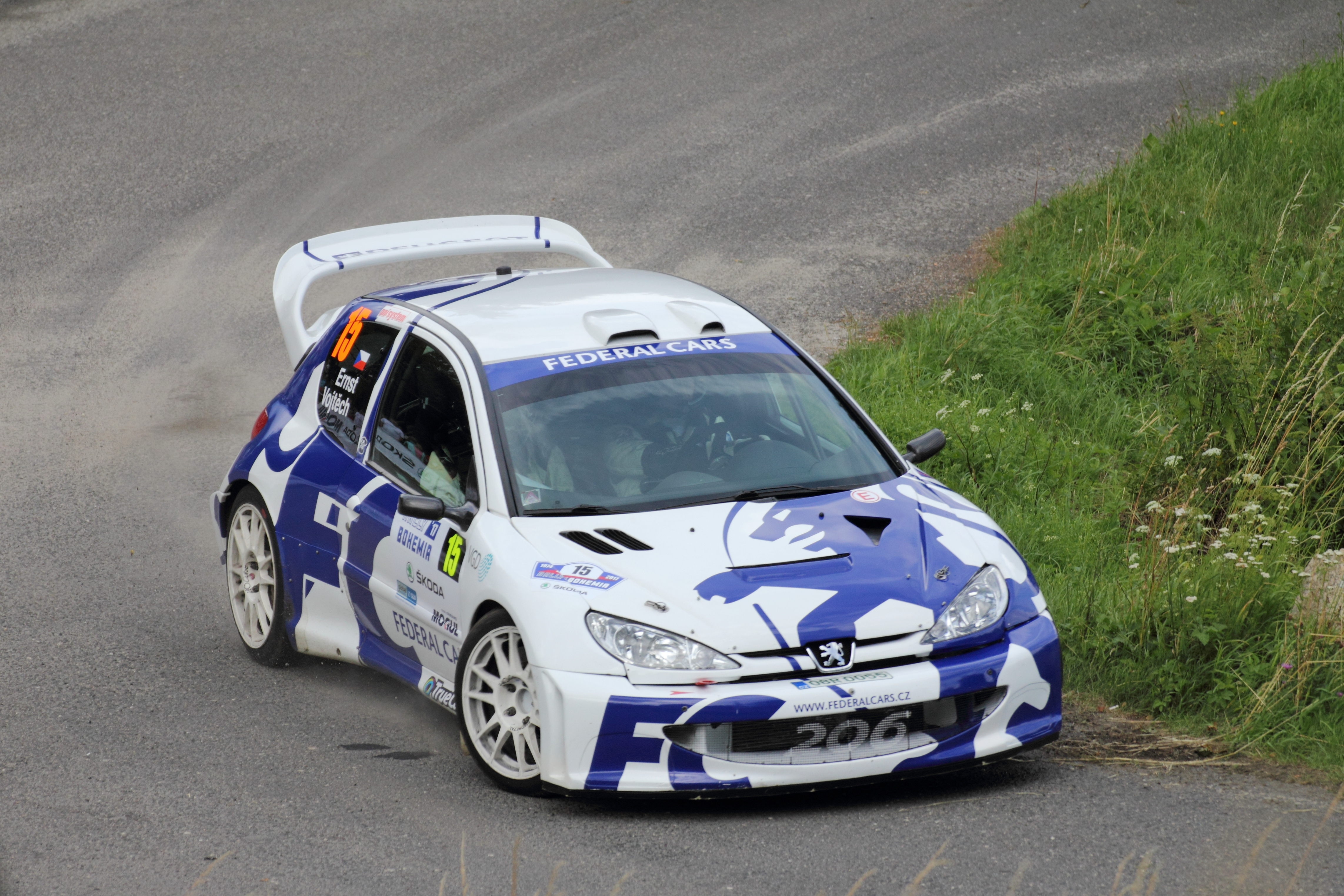 Vojtěch-Ernst, 2017 Rally Bohemia